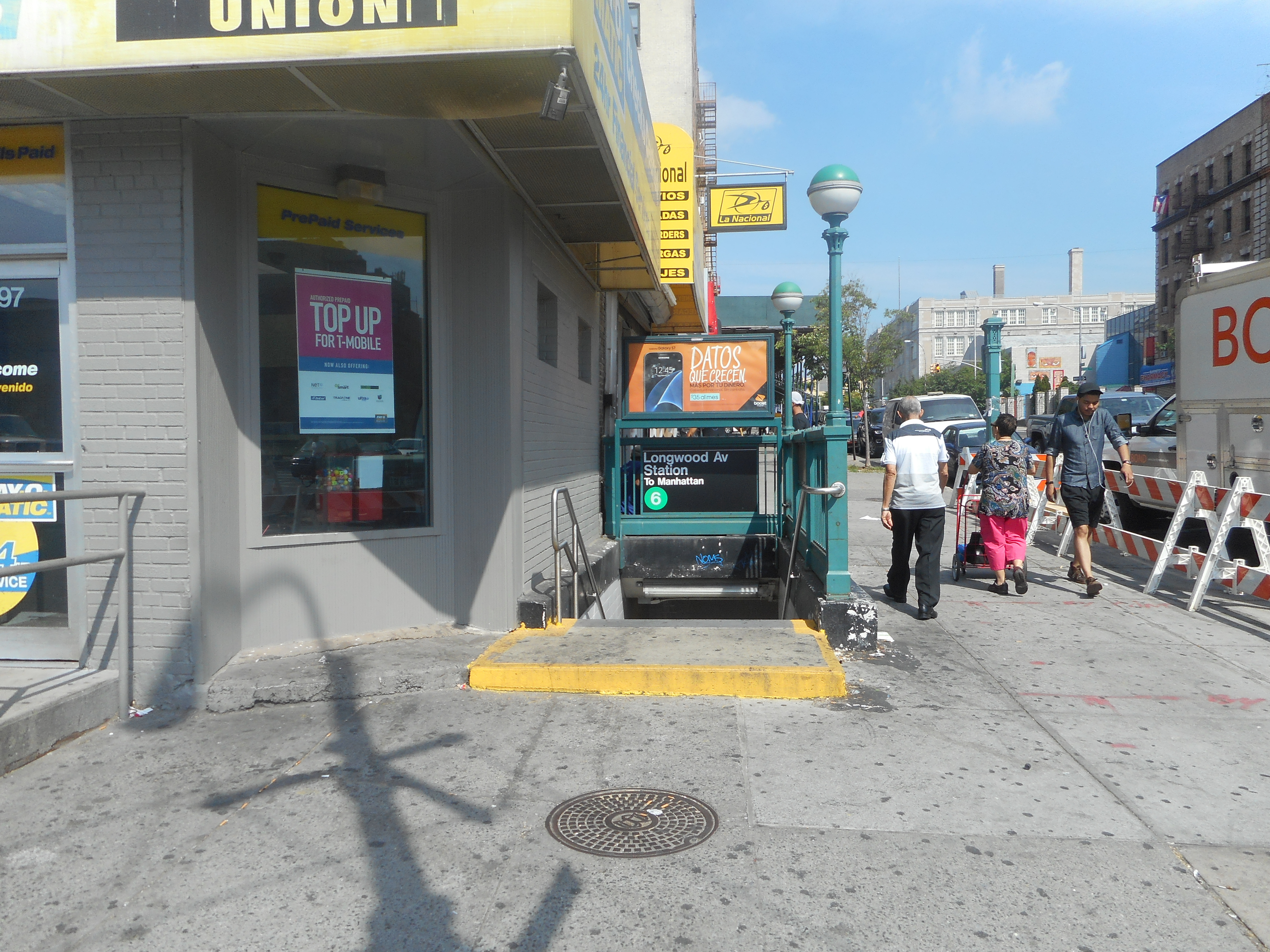 Station entrance for the Longwood Avenue Subway Station on the IRT Pelham Line in the Longwood (and possibly Woodstock) section of the South Bronx, in New York City. This is from the southwest corner of Longwood Avenue and Southern Boulevard.